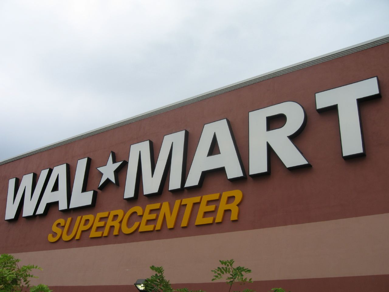 Wal-Mart, Playa del Carmen Q.R. (Originally "Most holidaymakers in Riviera Maya were Americans. They would have felt well at home with Wal Mart Supermarket.")